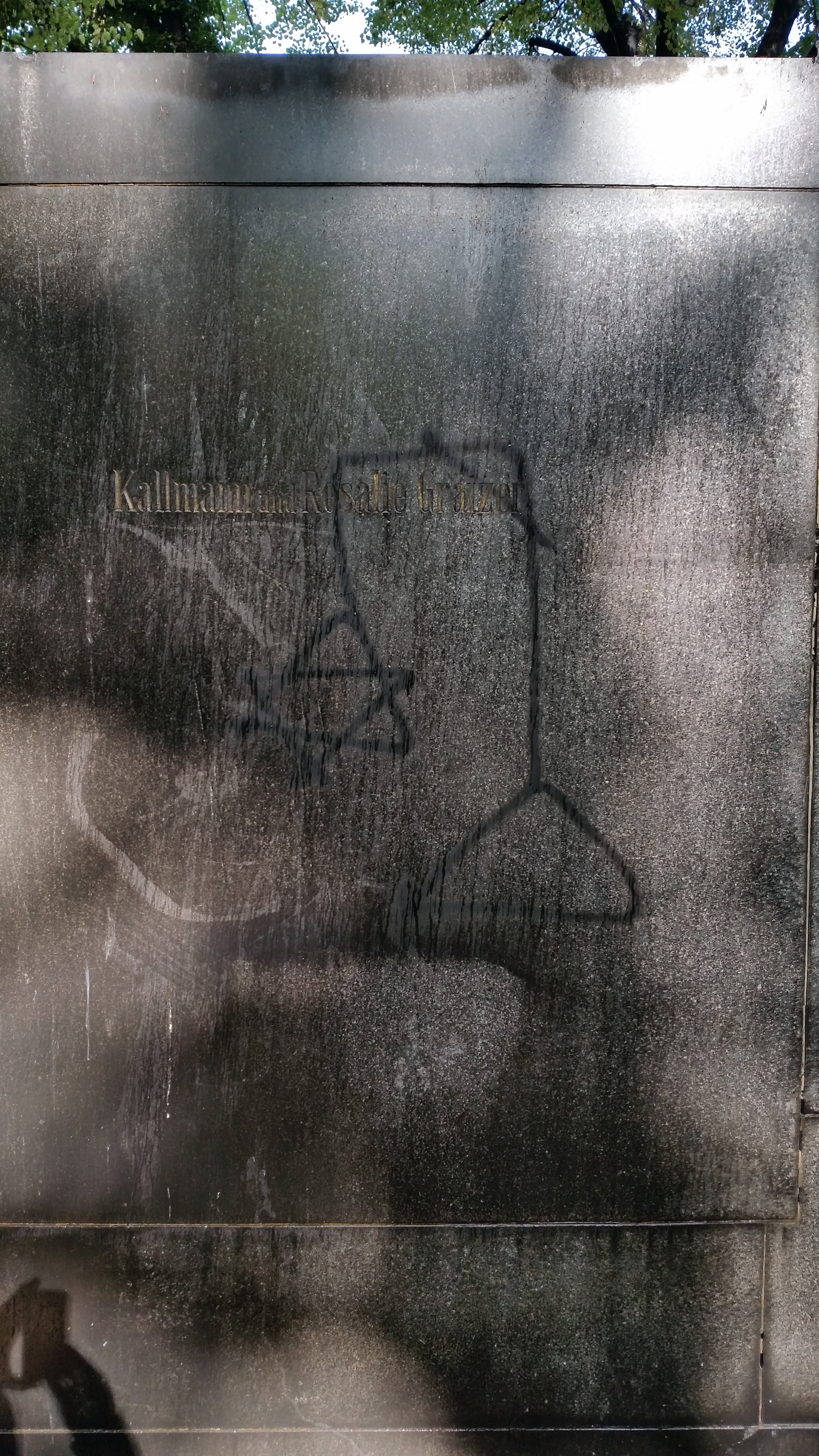 Jewish Cemetery in Katowice: Antisemitic Graffiti